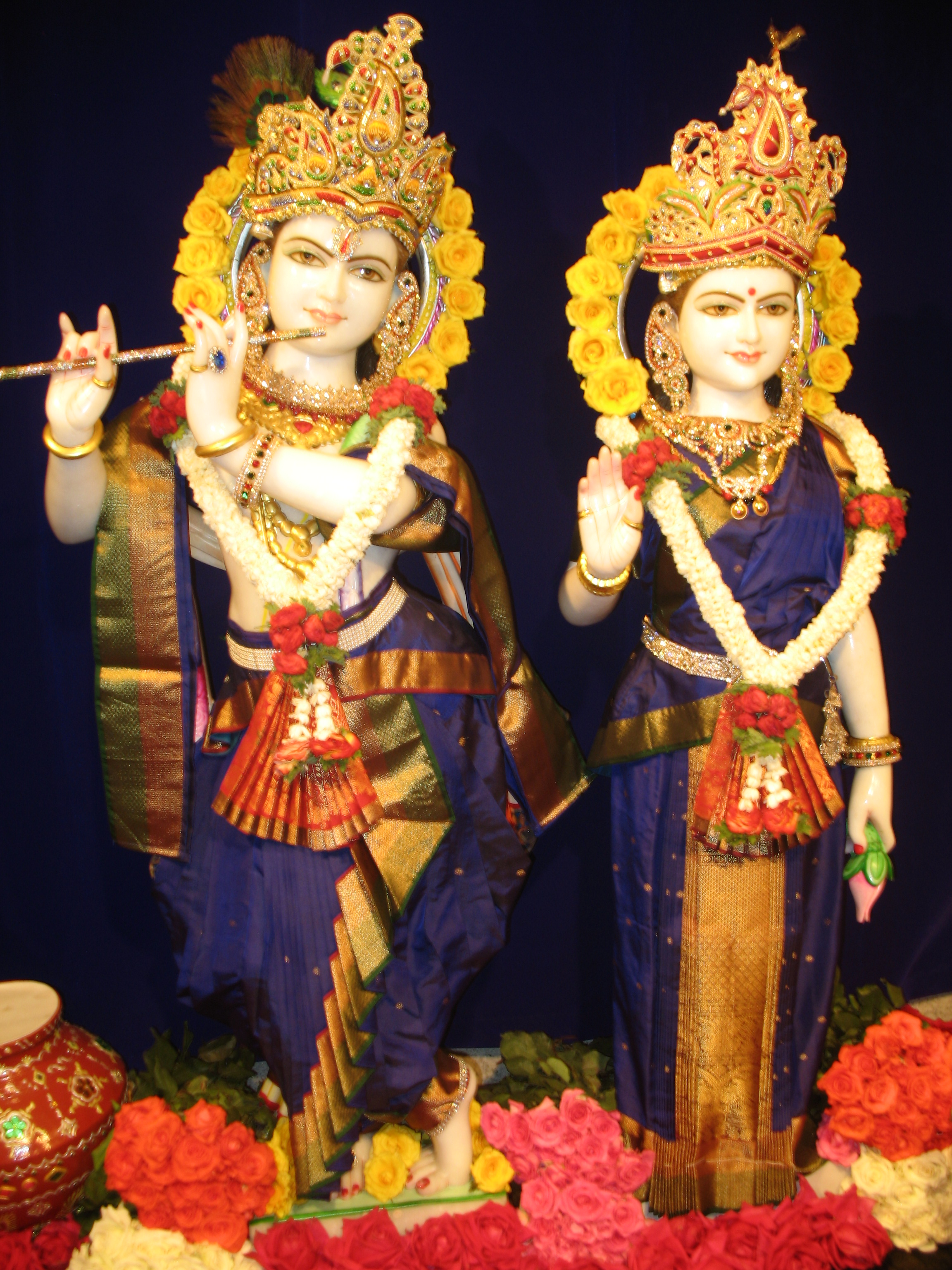 Sri Radha krishna Darshan at Vrundavan, Banshankari II Stage, Bangalore